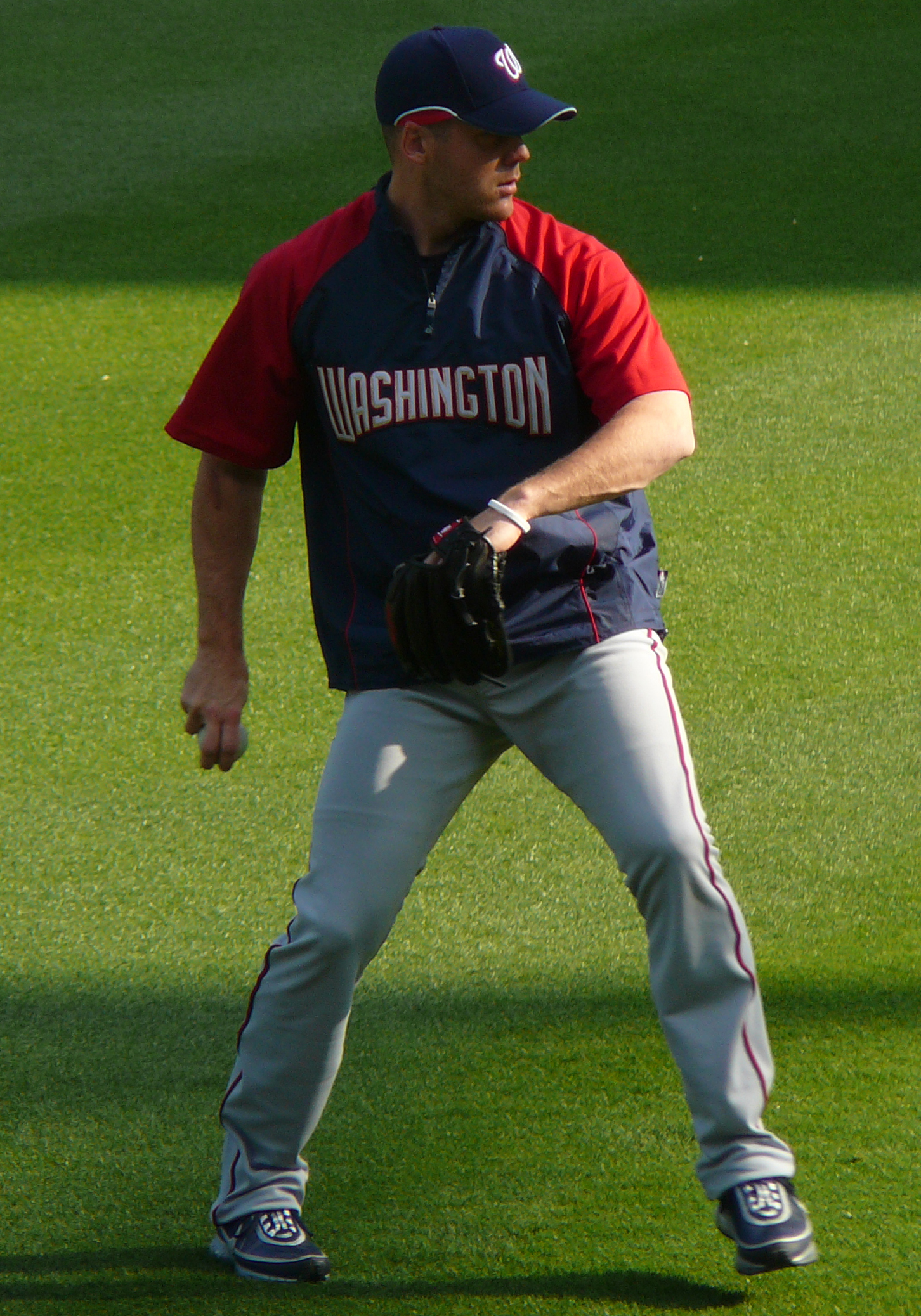 User:Chrisjnelson agreed to license this image of Shawn_Hill.jpg under a free attribution license. Any use of this image must be attributed; this means that Photo by :en:User:Chrisjnelson|Chris Nelson should be in the picture caption. 00:46, 24 April 2008 . . Chrisjnelson . . 1,452×2,076 (2.42 MB)